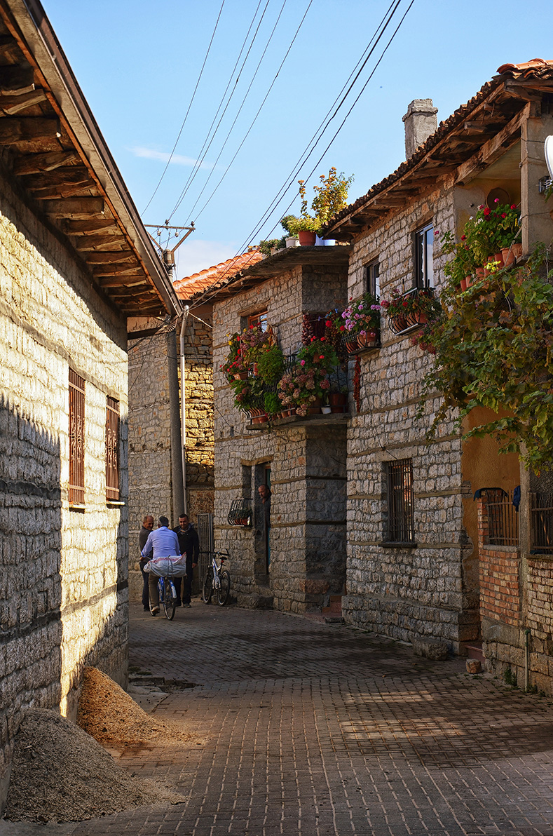 A street with stone houses in Lin, Albania